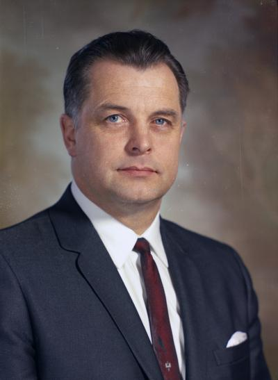 Representative Charles Moon, 1967